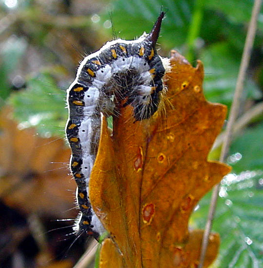 caterpillar, Forest of Rihoult-Clairmarais near Saint-Omer in the north of France.